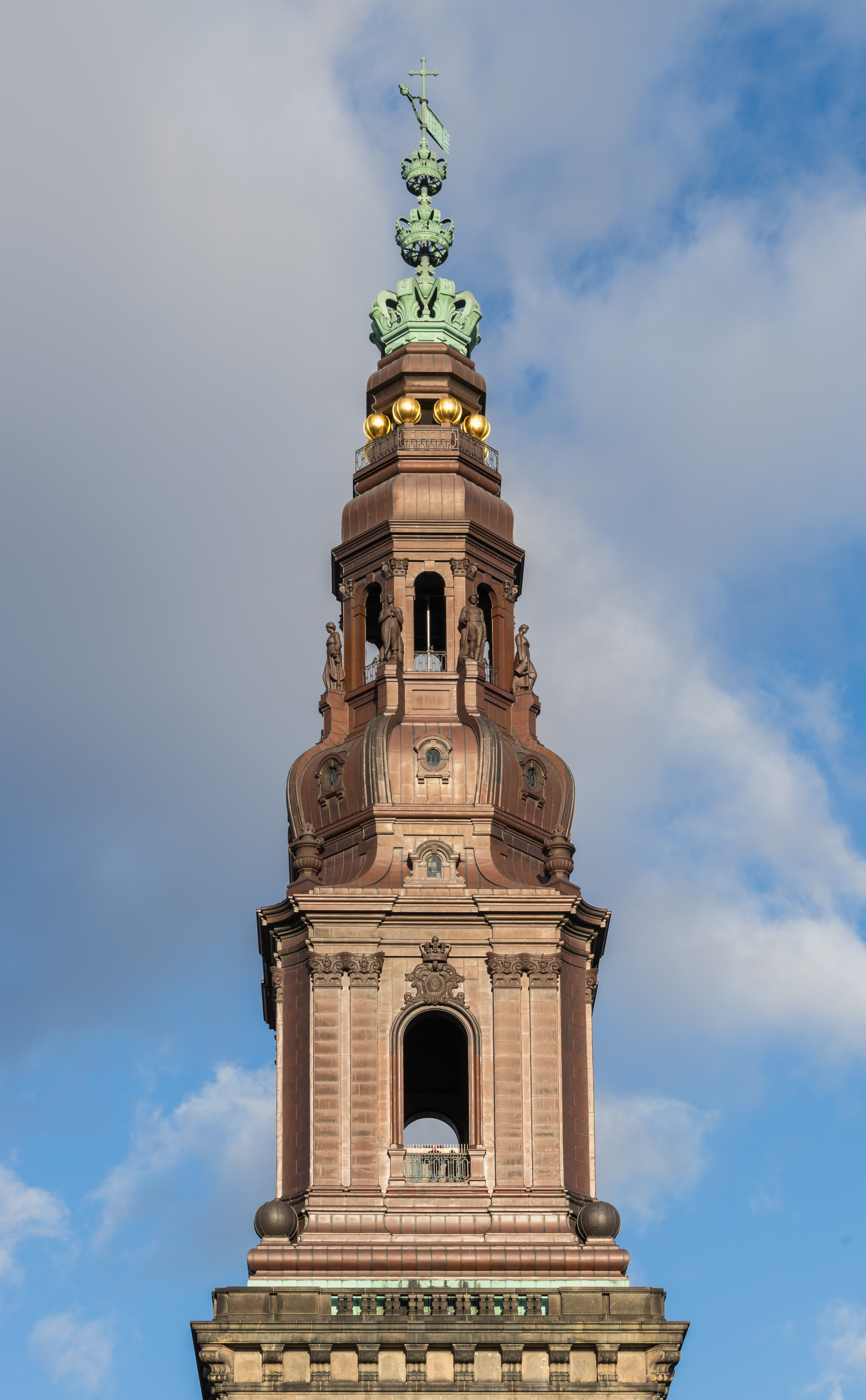 Tower of the palace of Christiansborg, Copenhagen, Denmark.